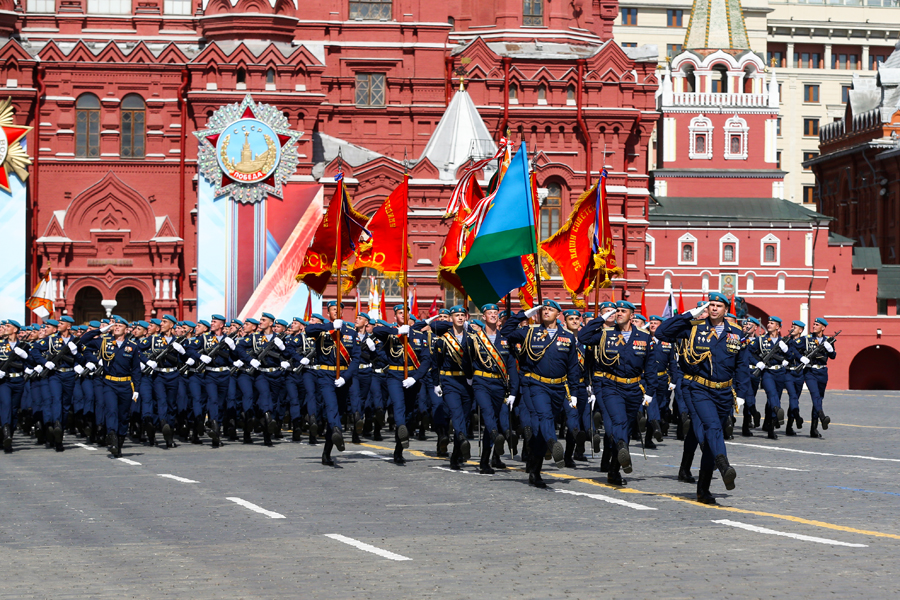 Victory Day military parade on Red Square 2016-05-09